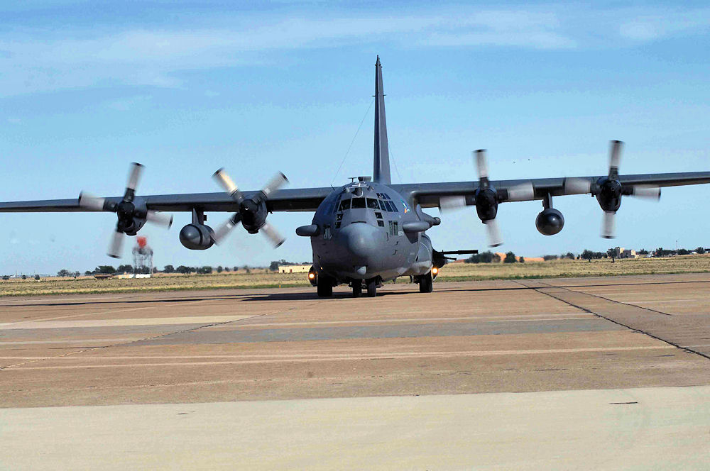 One of two 16th Special Operations Squadron AC-130H Spectre AC-130H gunships taxis onto the flightline at Cannon AFB, NM